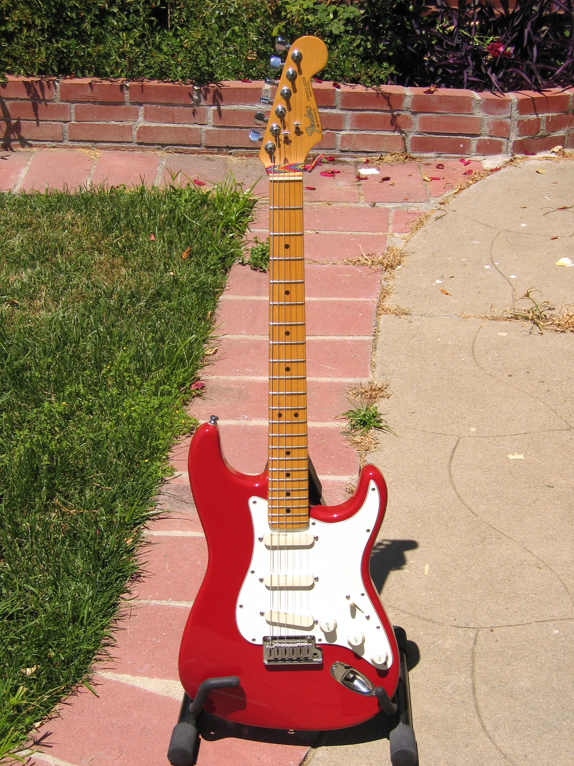 Stratocaster Plus in Torino Red